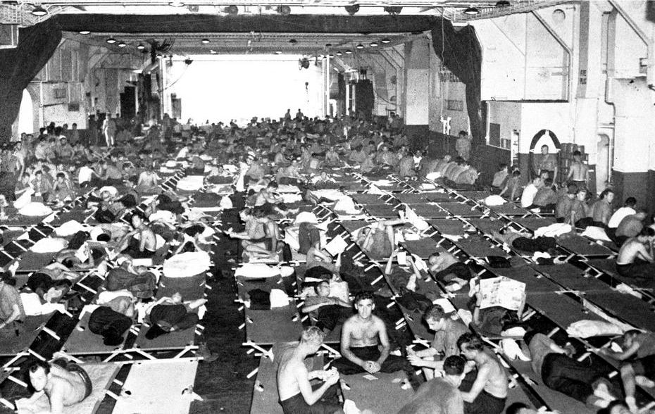 View of the hangar bay of the U.S. Navy escort carrier USS Hollandia (CVE-97), while transporting servicemen to the continental United States, in 1944-1945.